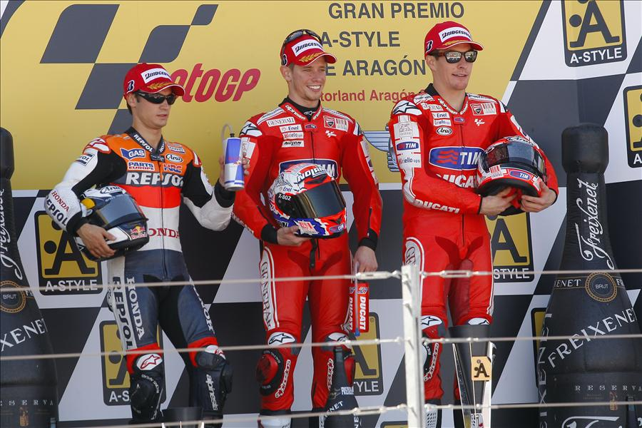 Dani Pedrosa, Casey Stoner and Nicky Hayden, posing for a photo on the podium after finishing in second, first and third position at the 2010 Aragón Grand Prix.